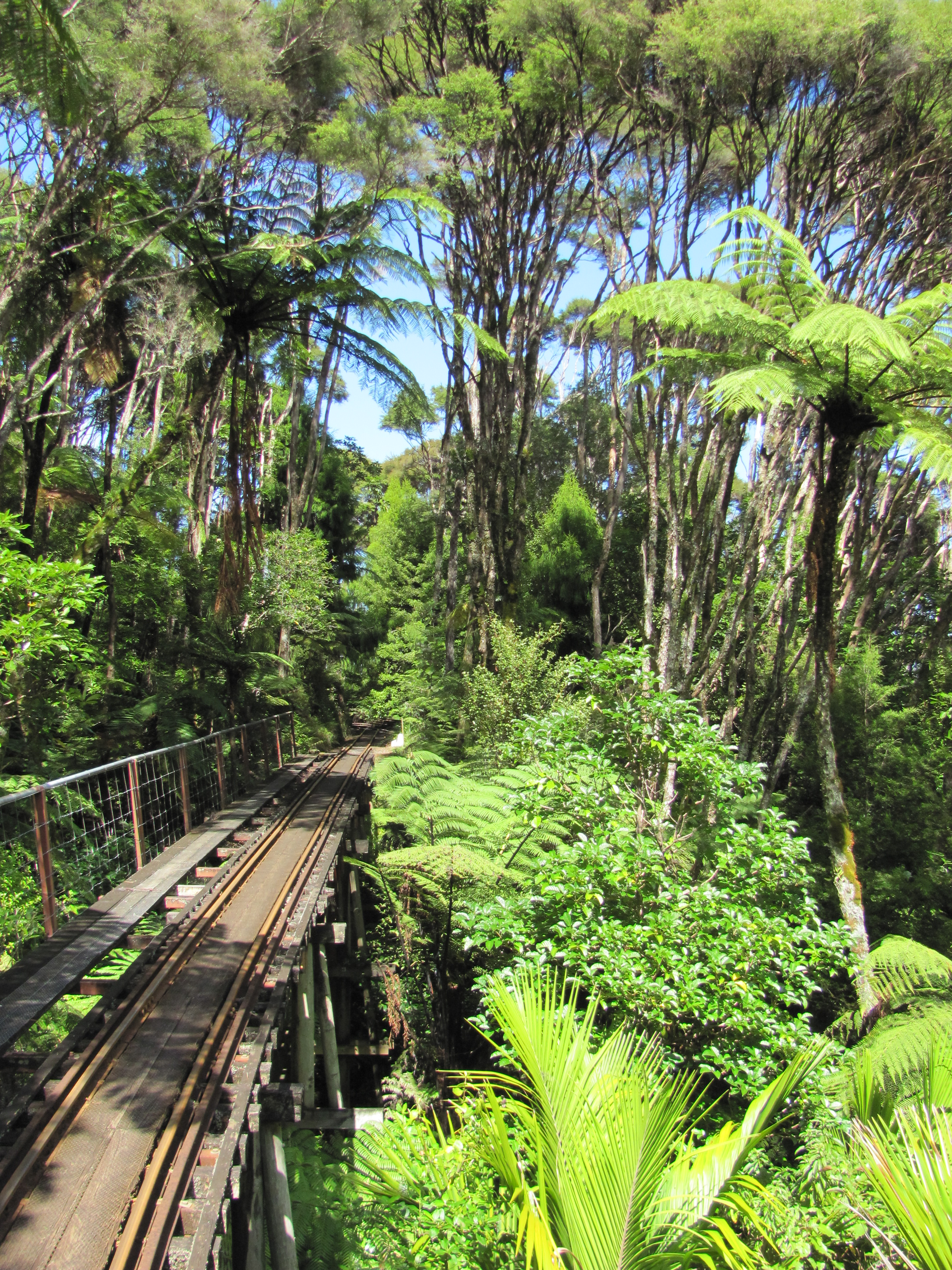 Bridge 1 of DCR